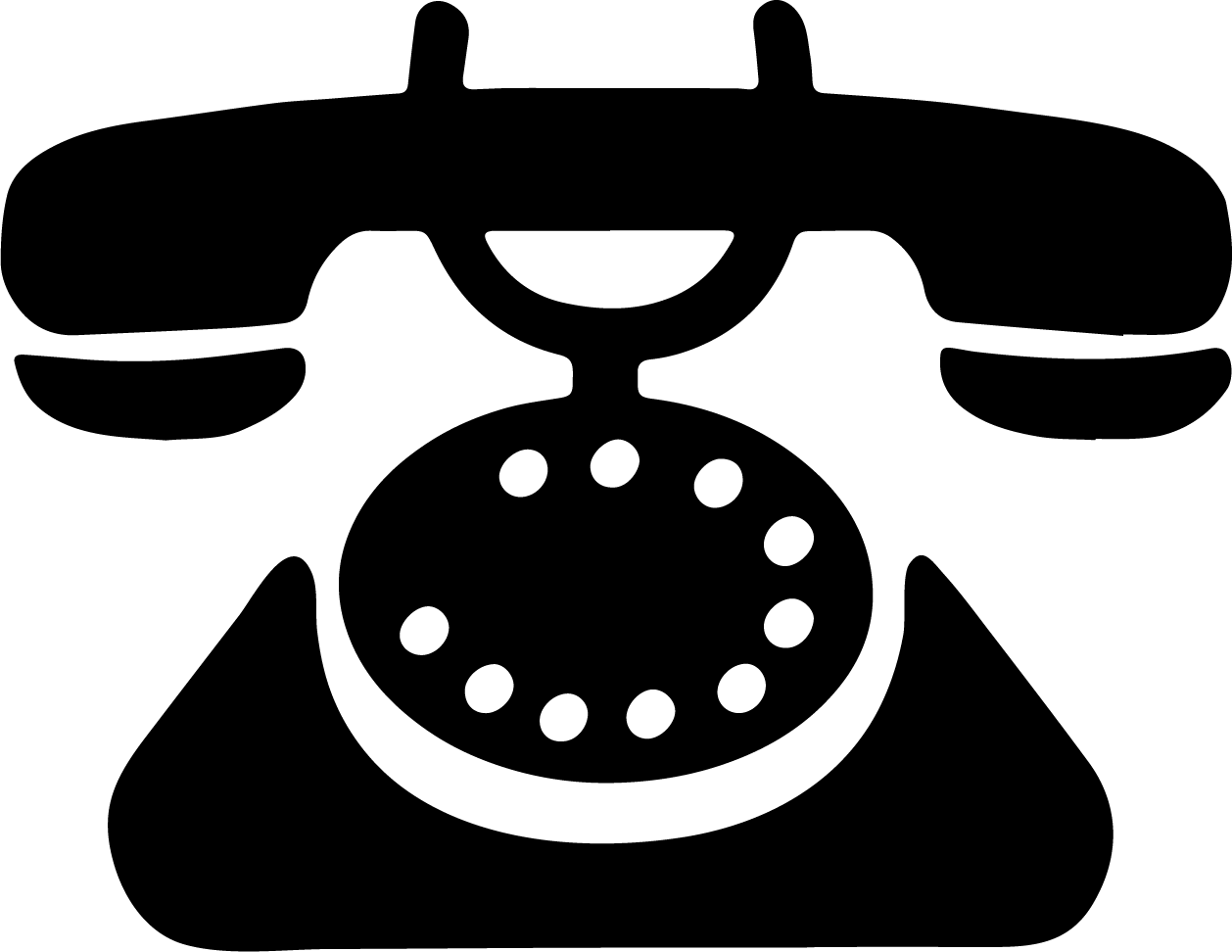 A black colour landline telephone, which is the election symbol of Samagi Jana Balawegaya.